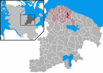 This map shows the area of the Gemeinde (municipality) Krummbek in the Kreis (district) Plön, Schleswig-Holstein, Germany.